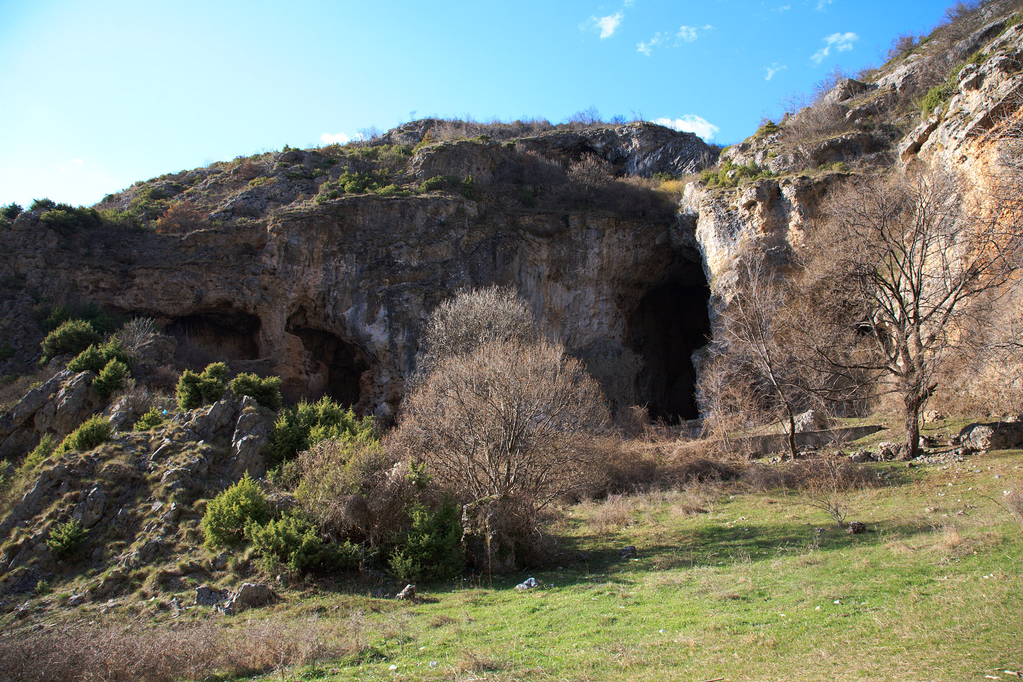 The "Kape" cave in Alibotush mountain, Northern Greece